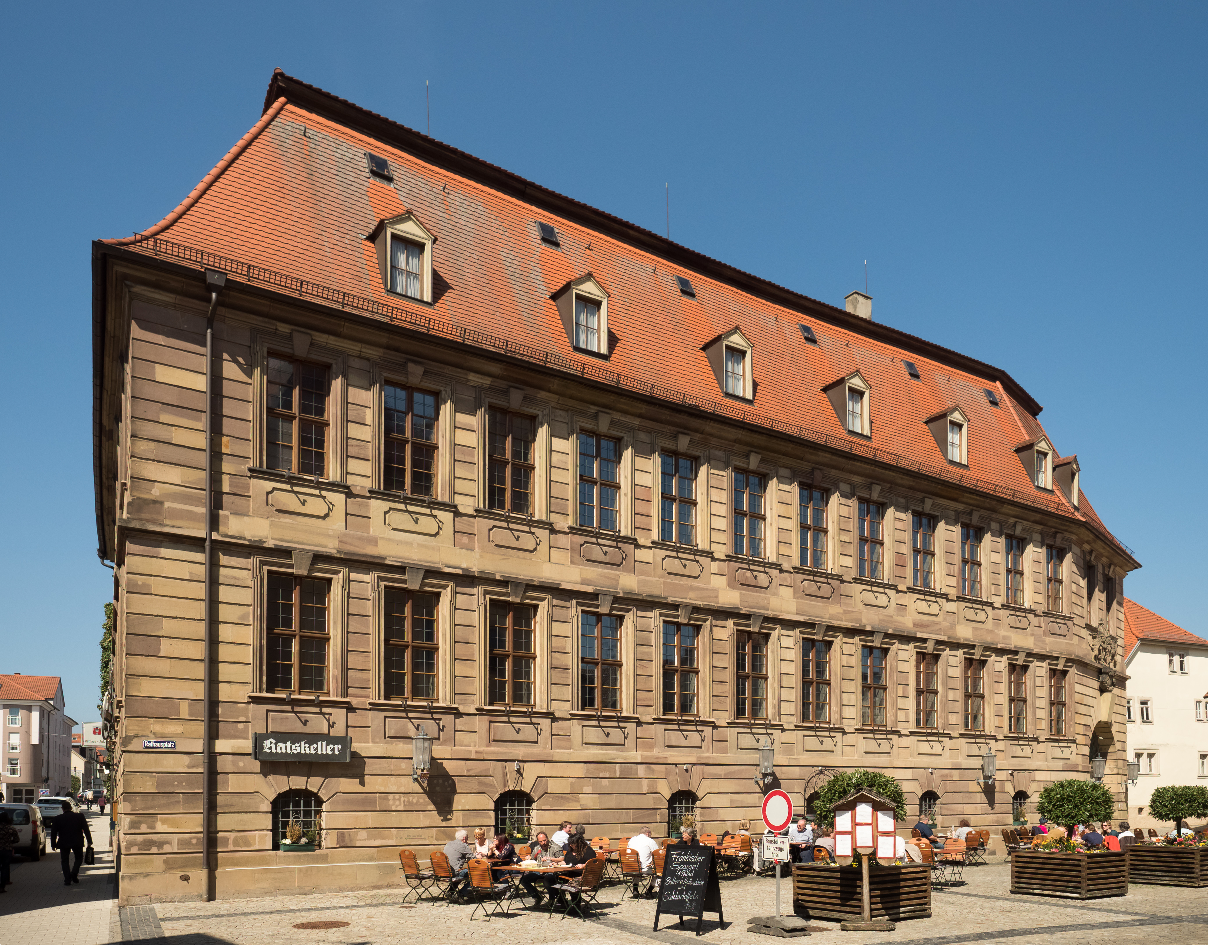 New Town Hall Bad Kissingen